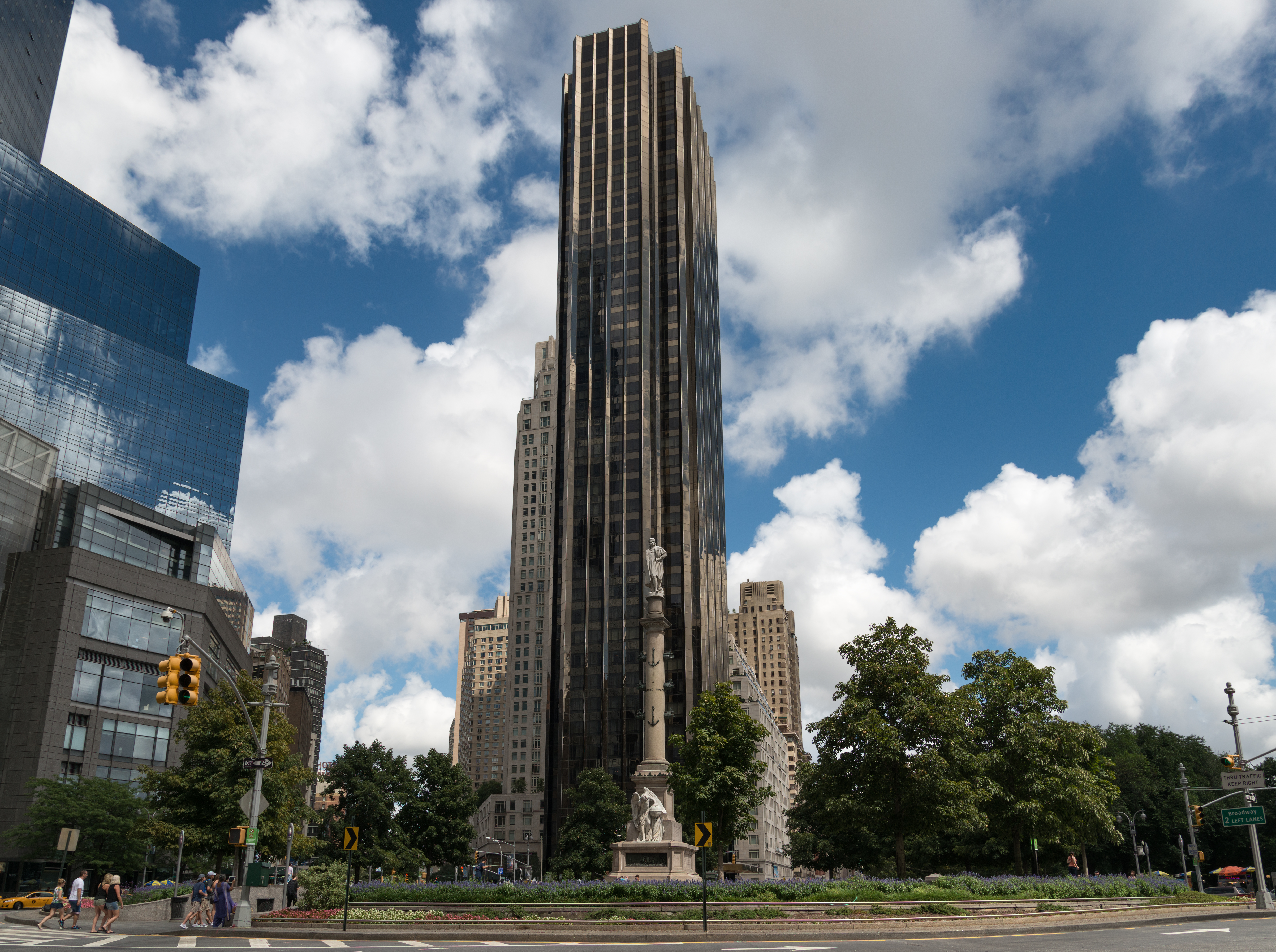 Columbus Circle - New York, NY, USA